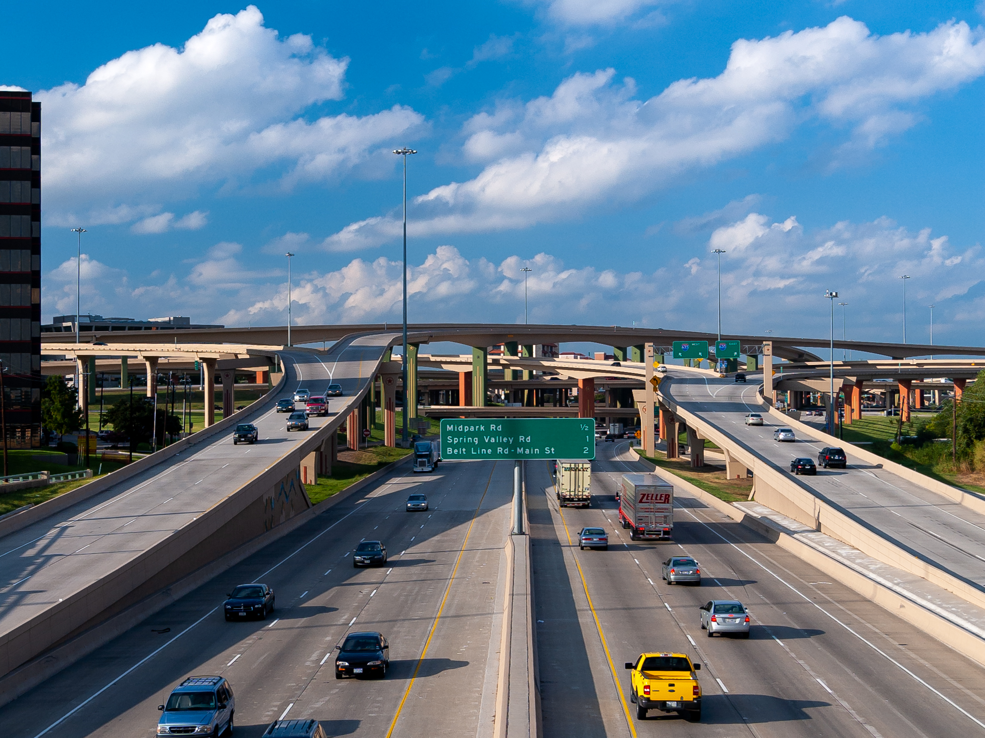 The High Five Interchange in Dallas, Texas in 2007, not long after it was completed.